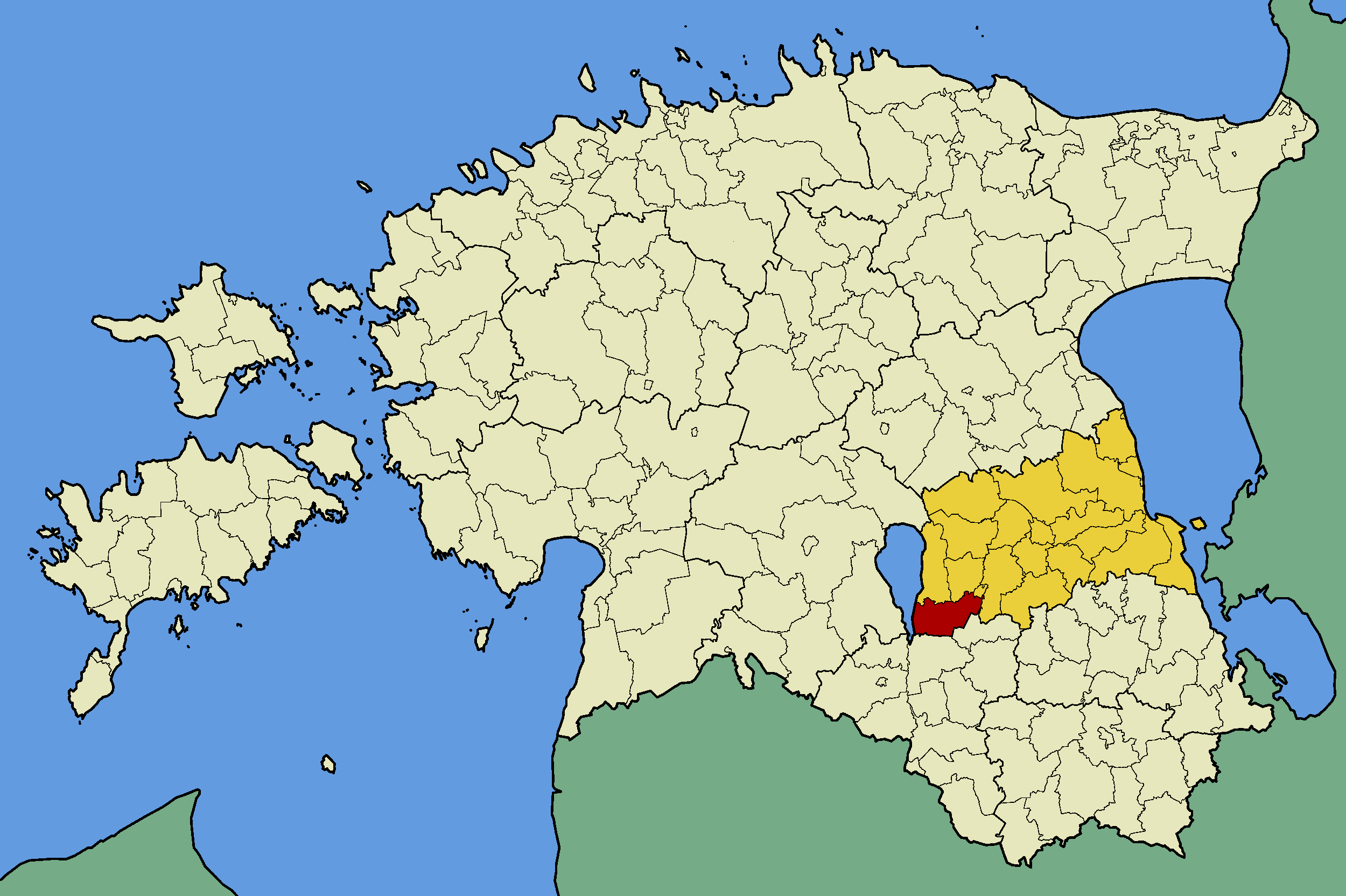 Map of Estonia with borders of municipalities (parishes). Tartu county and Rõngu municipality emphasized.